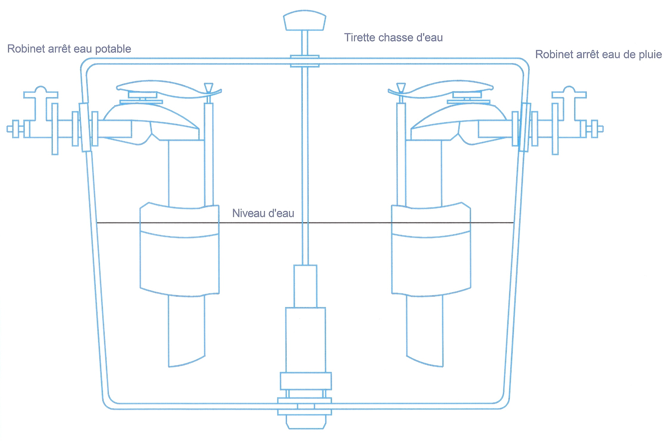 Flush water system and rainwater (via Google translate)